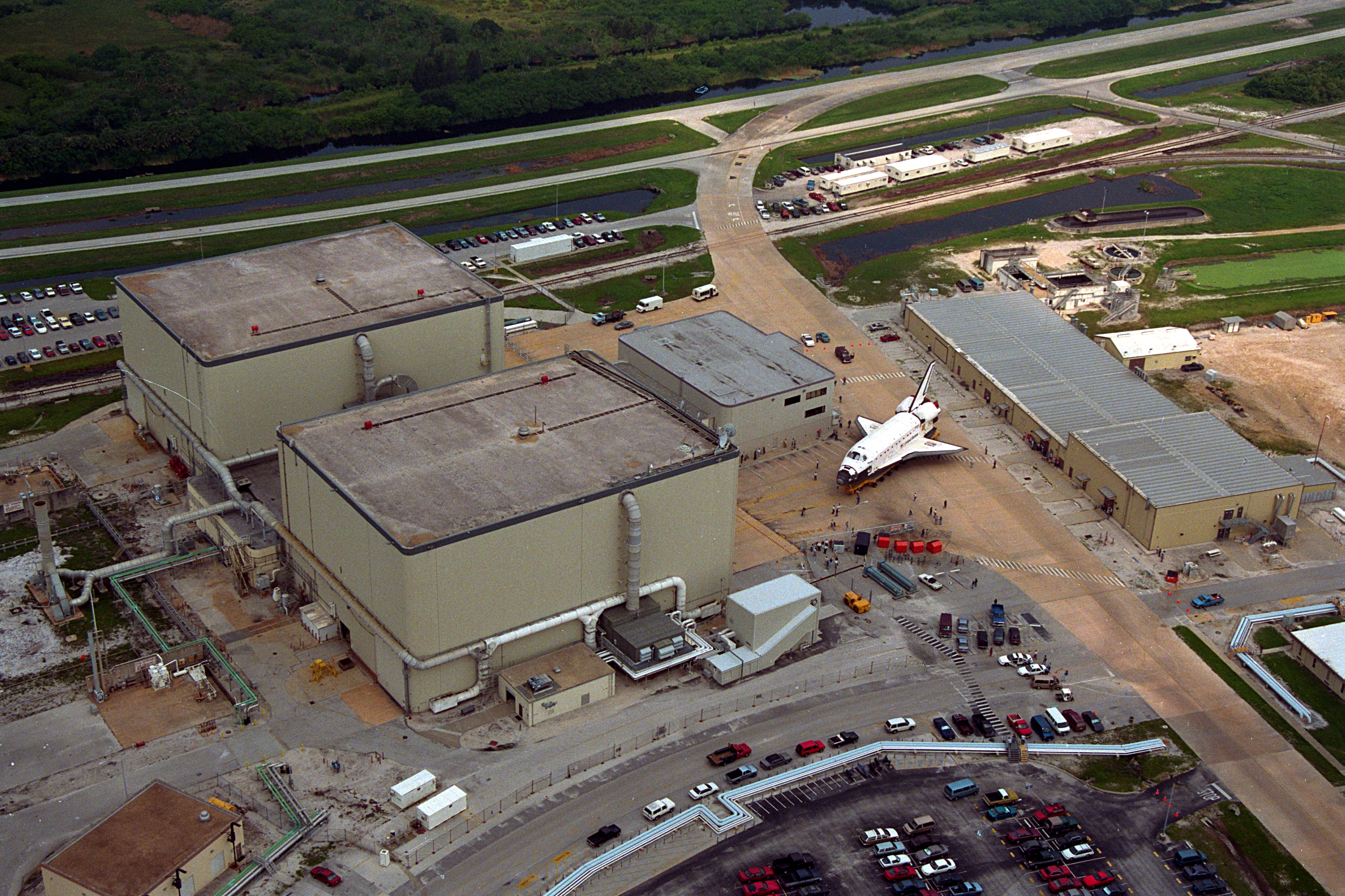 A vantage point high atop the Vehicle Assembly Building (VAB) shrinks the size and scale of the orbiter Atlantis as it is rolled from the Orbiter Processing Facility to the VAB. During the five working days it spends inside the huge building, Atlantis will be mated to the external tank/twin solid rocket booster assembly, and then rolled out to Launch Pad 39A. In the VAB, the SPACEHAB Double Modules will be installed in the orbiter's payload bay and final launch preparations will get under way. Atlantis is scheduled for liftoff on Mission STS-79, the fourth docking with the Russian Space Station Mir, on July 31.